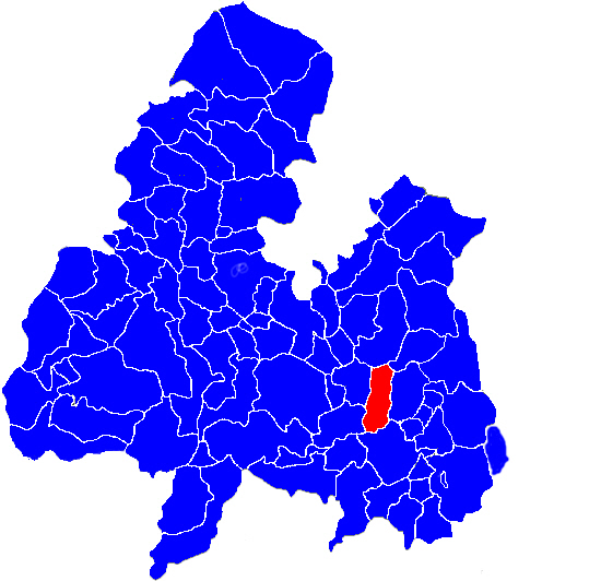 Position of Loughmoe West civil parish within North Tipperary